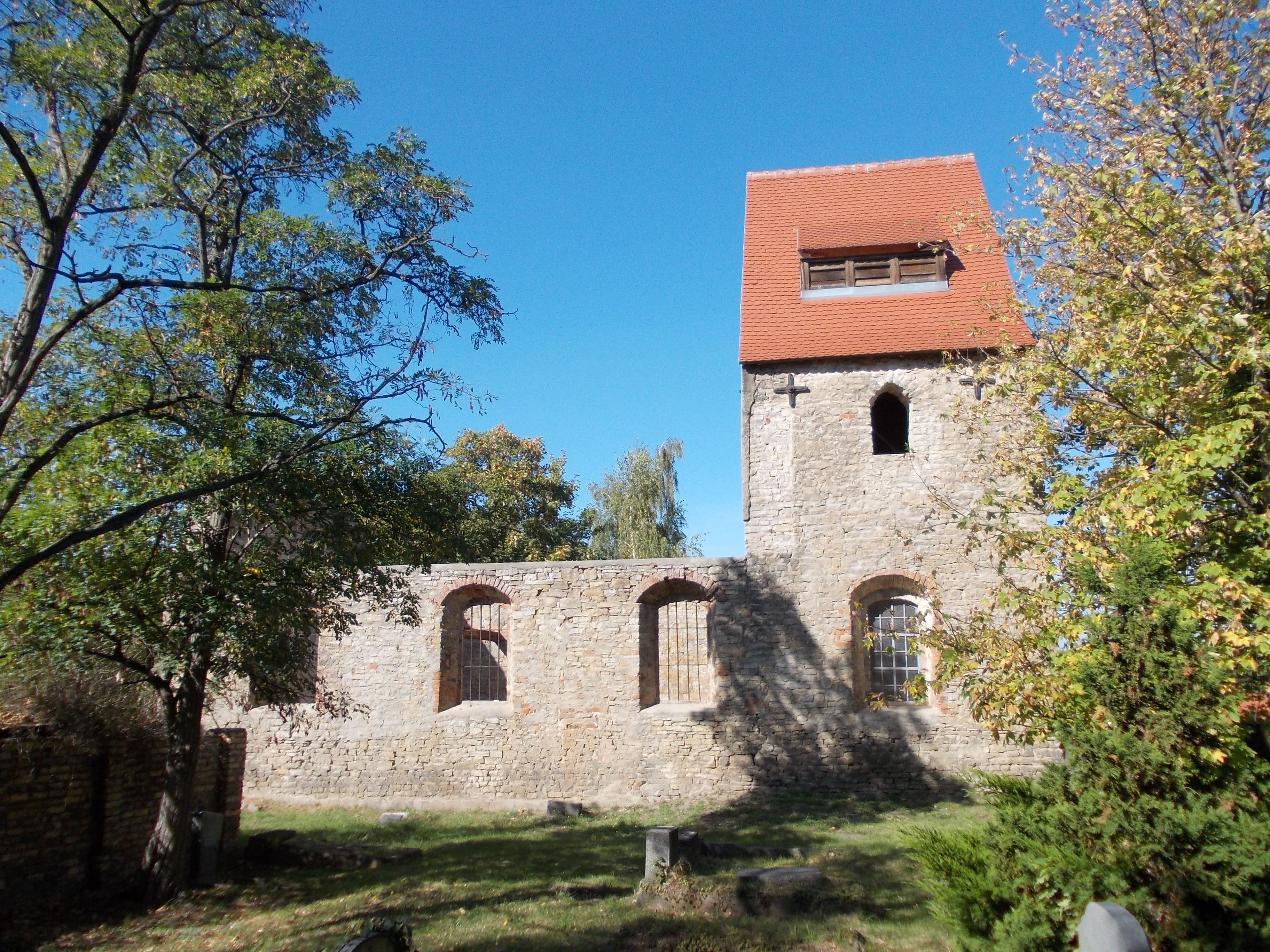 St. Nicholas Church in Rössen (Leuna, district of Saalekreis, Saxony-Anhalt)